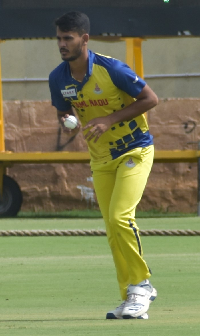 Indian cricketer Krishnamoorthy Vignesh during the 2019-20 Vijay Hazare Trophy in Alur, Bangalore.